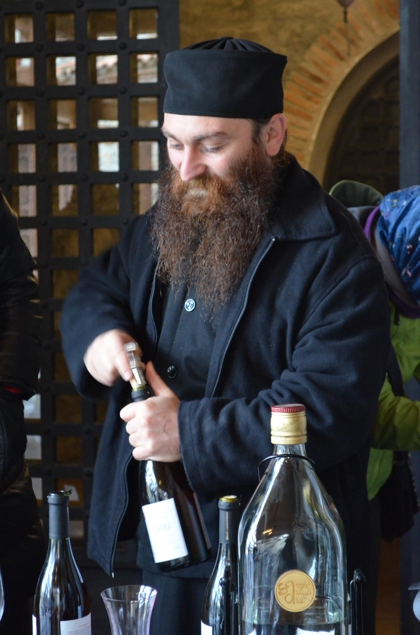 Georgian monk opening bottle of wine.